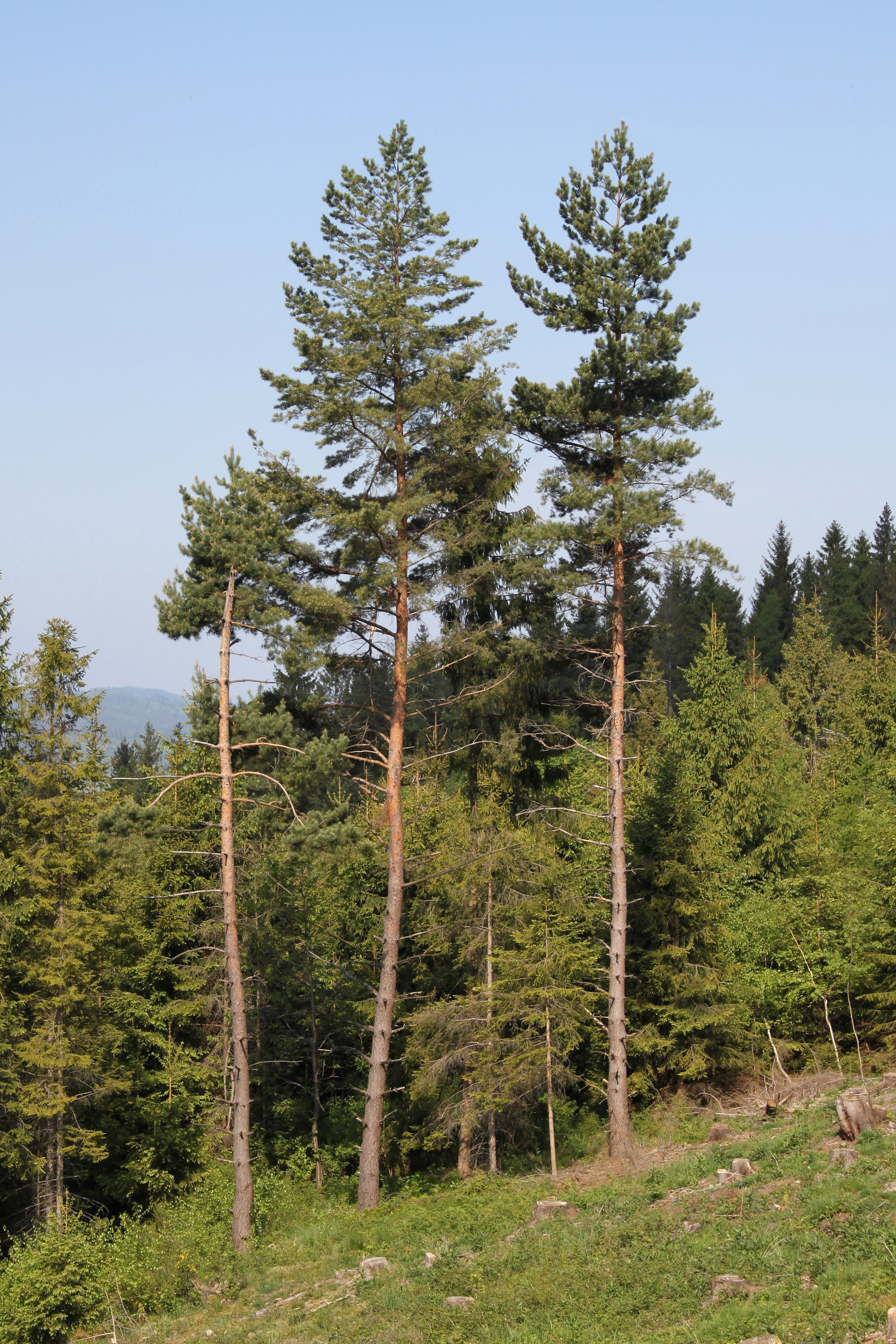 Scots Pines (Pinus sylvestris) in Beskid Żywiecki, Poland.